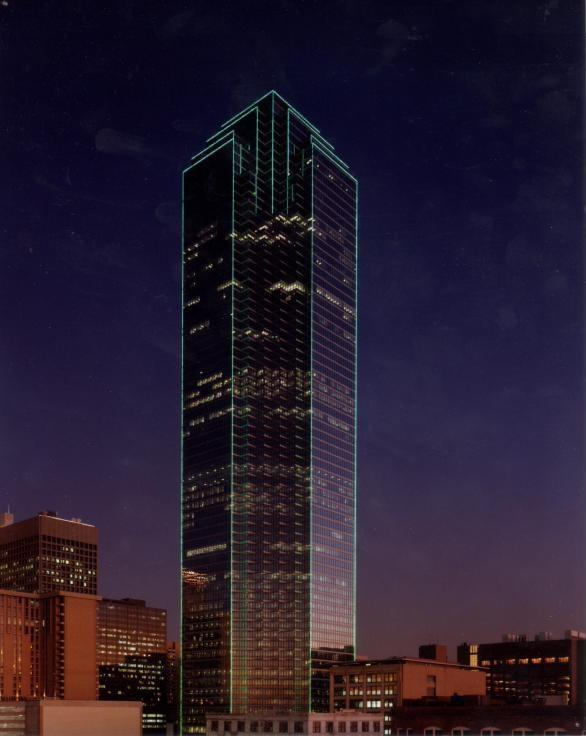 Bank of America Plaza in evening. Picture by James Chiles circa 1989